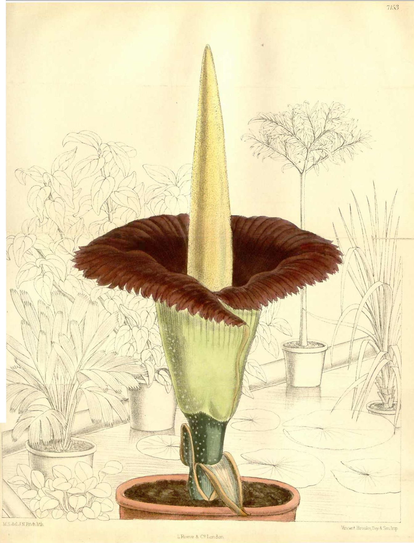 Amorphophallus titanum (Becc.) Becc. ex Arcang.